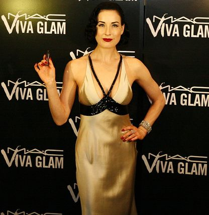 Photo of author/burlesque artist Dita Von Teese.